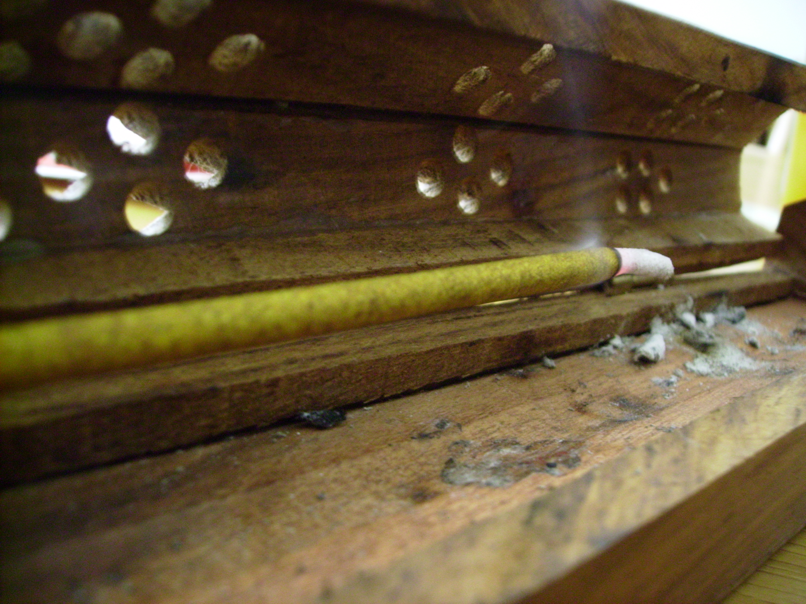 Incense